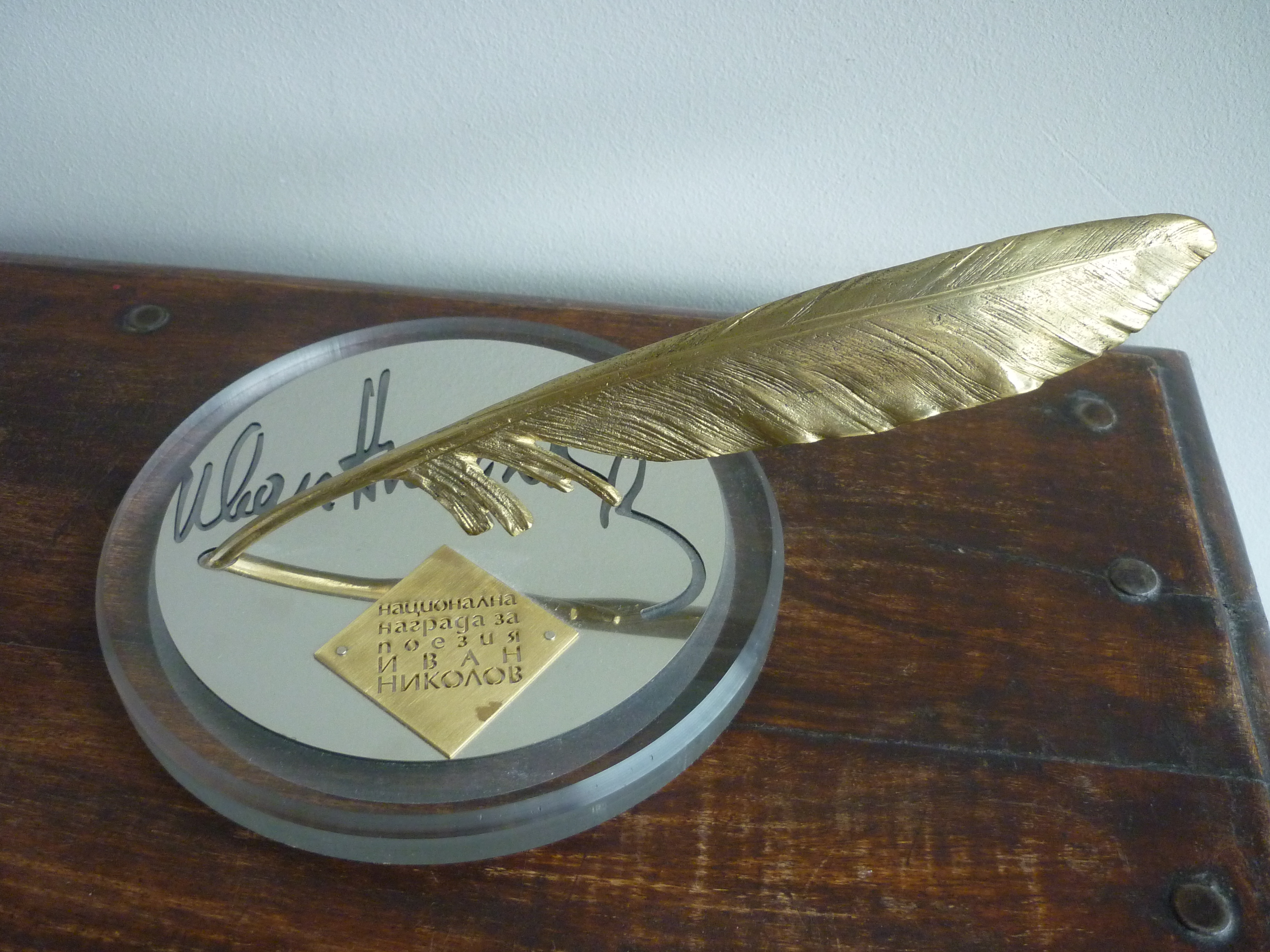 The trophy of the Ivan Nikolov Award by Hristo Gochev